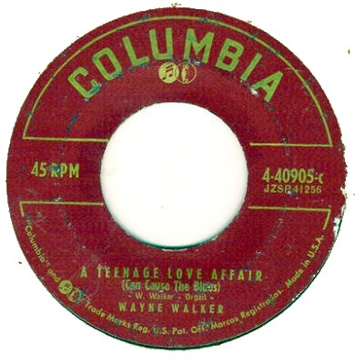 A Teenage Love Affair (Can Cause The Blues) by Wayne Walker, Columbia Records 1957.